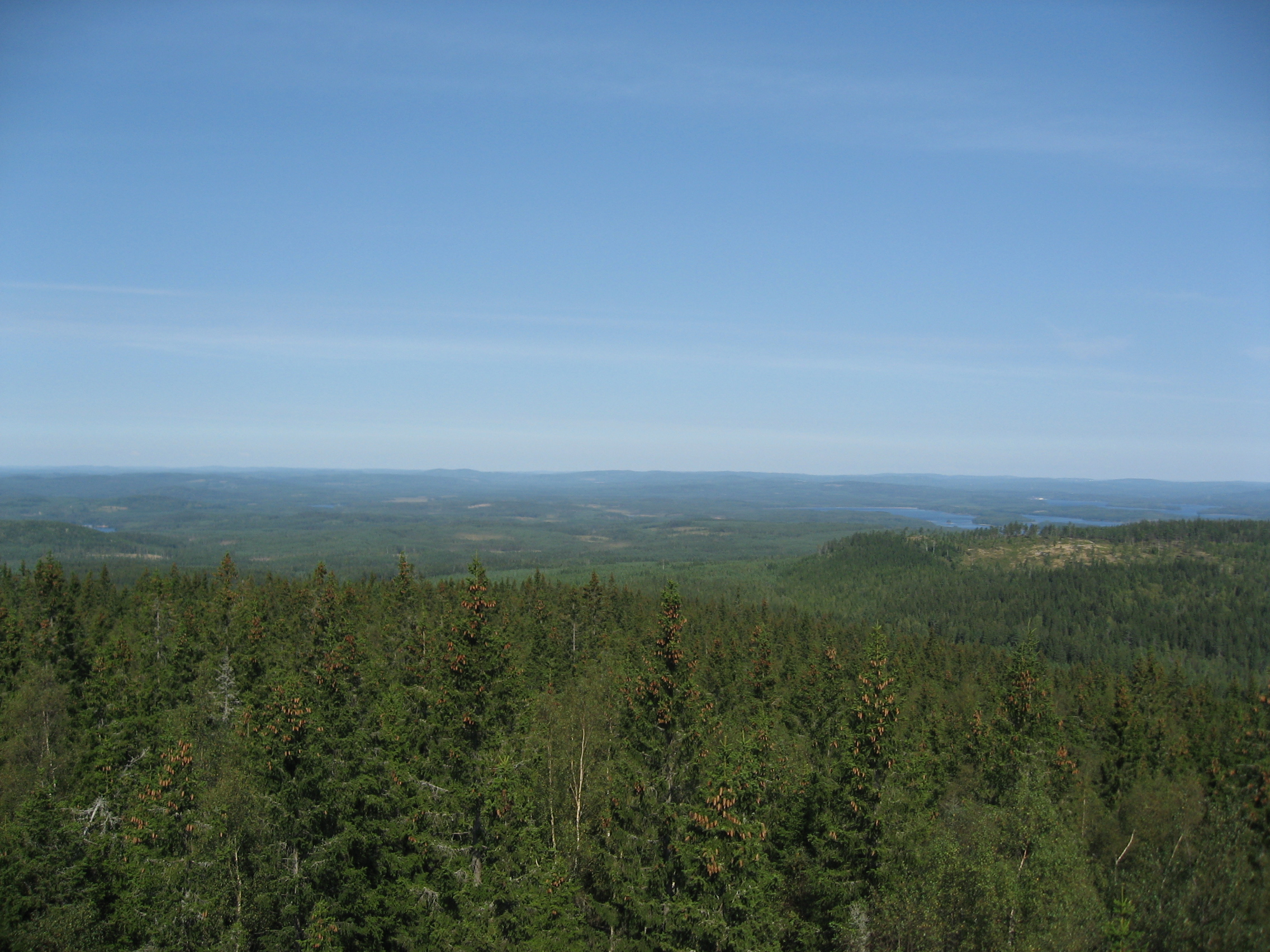 View from the tower of Kindlahöjden